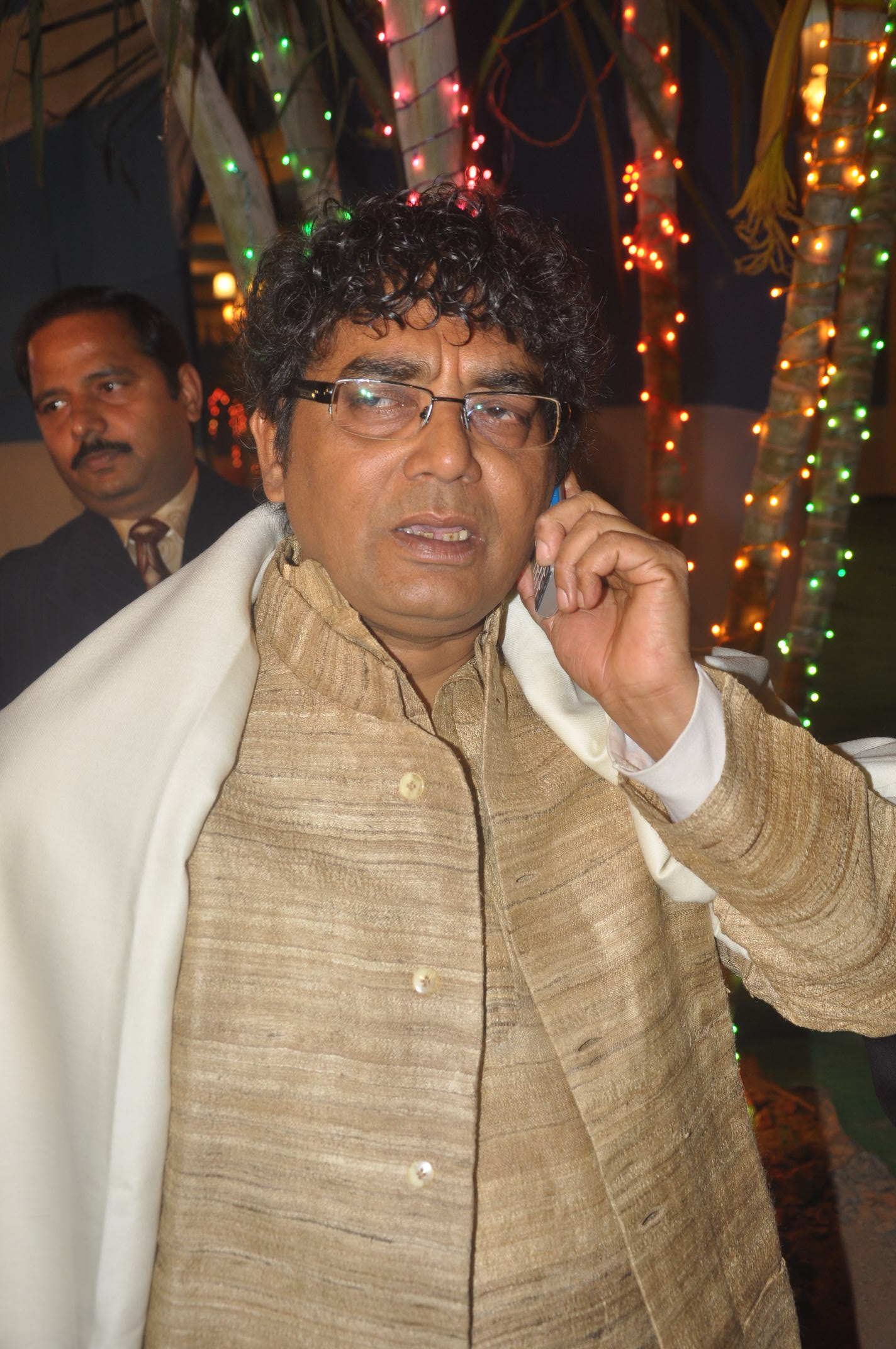 Vineet Kumar in 2012